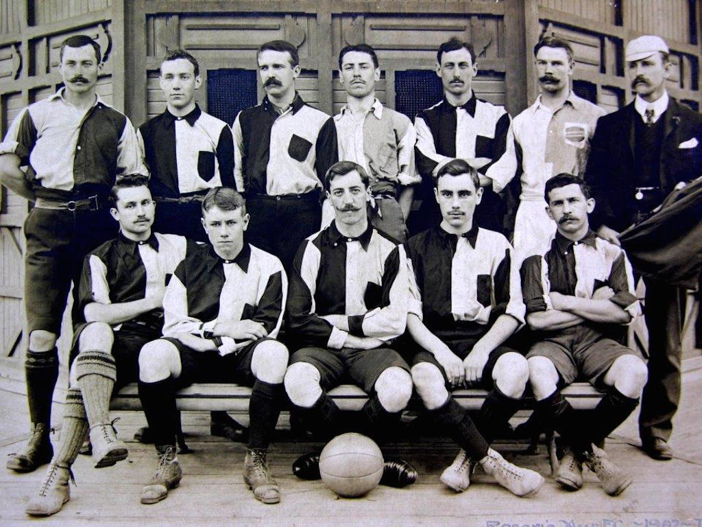 The football team of Club Atlético del Rosario that beat CURCC at the 1905 Tie Cup final.